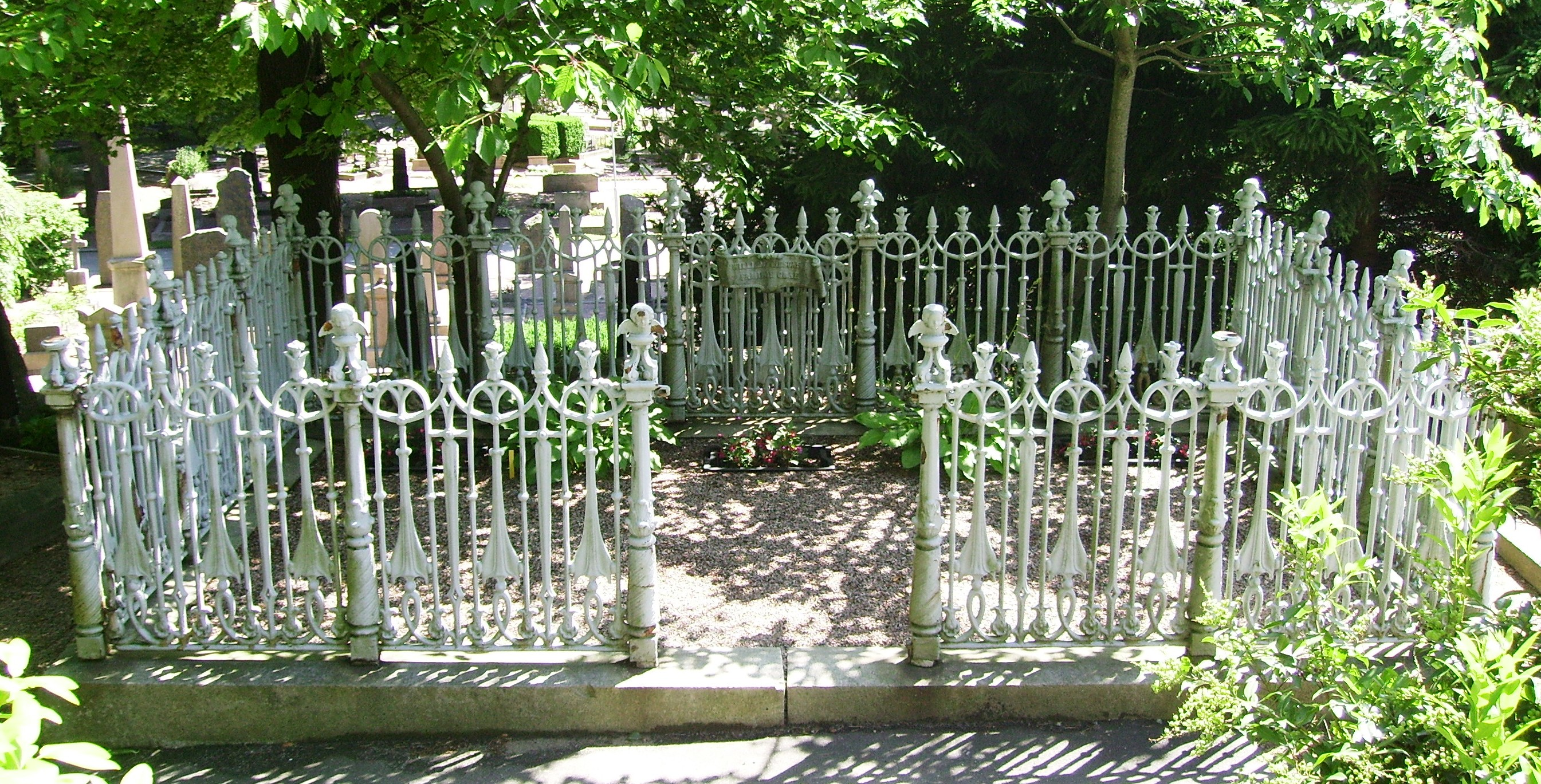 Picture of William Gibson's (1848-1917) family grave at Östra kyrkogården in Gothenburg.